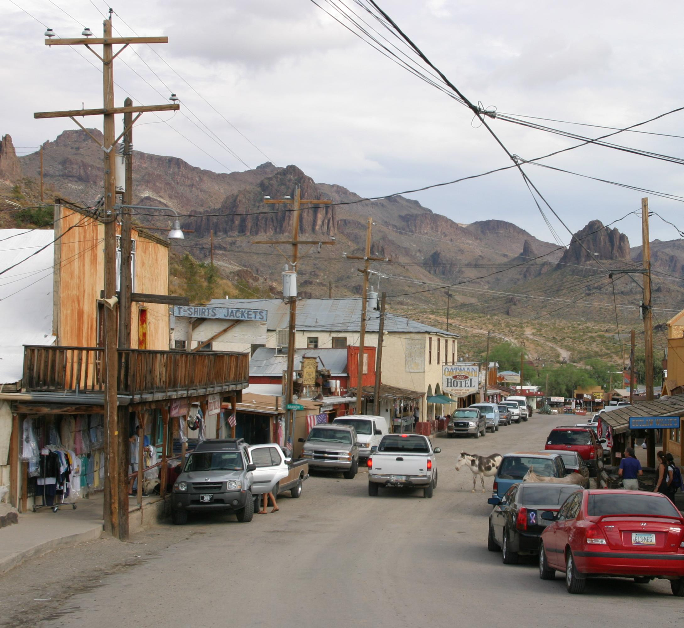 Old U.S. Route 66,Oatman Highway, Oatman, Arizona. Taken 8/10/05 by User:Pretzelpaws with a Canon EOS-10D camera. Cropped 8/31/05 using the GIMP.